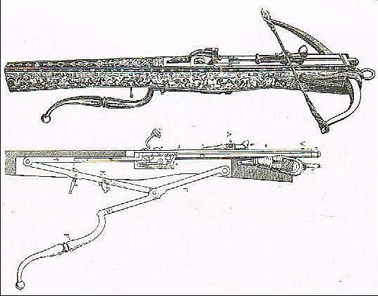 Balester with gun